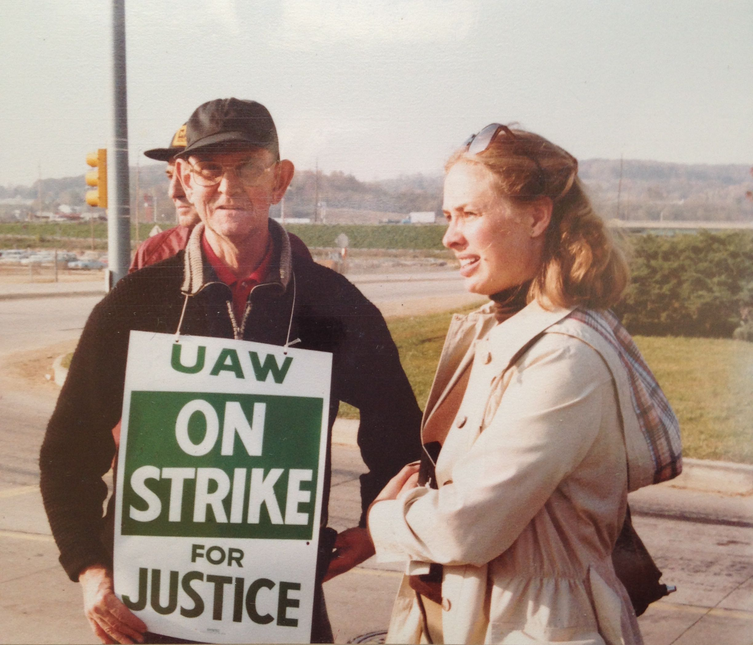 Anna Stewart visiting UAW picket lines in Washington DC, circa 1980